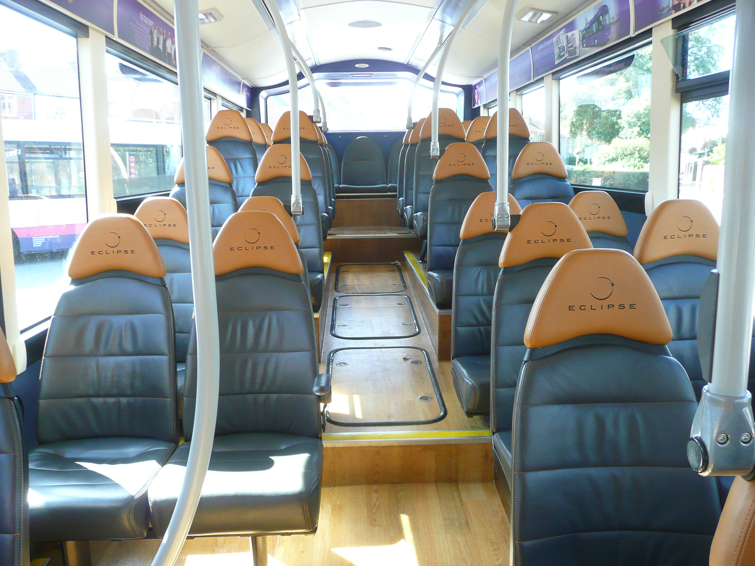 Inside an Eclipse BRT bus showing the leather seating and wood-effect flooring.